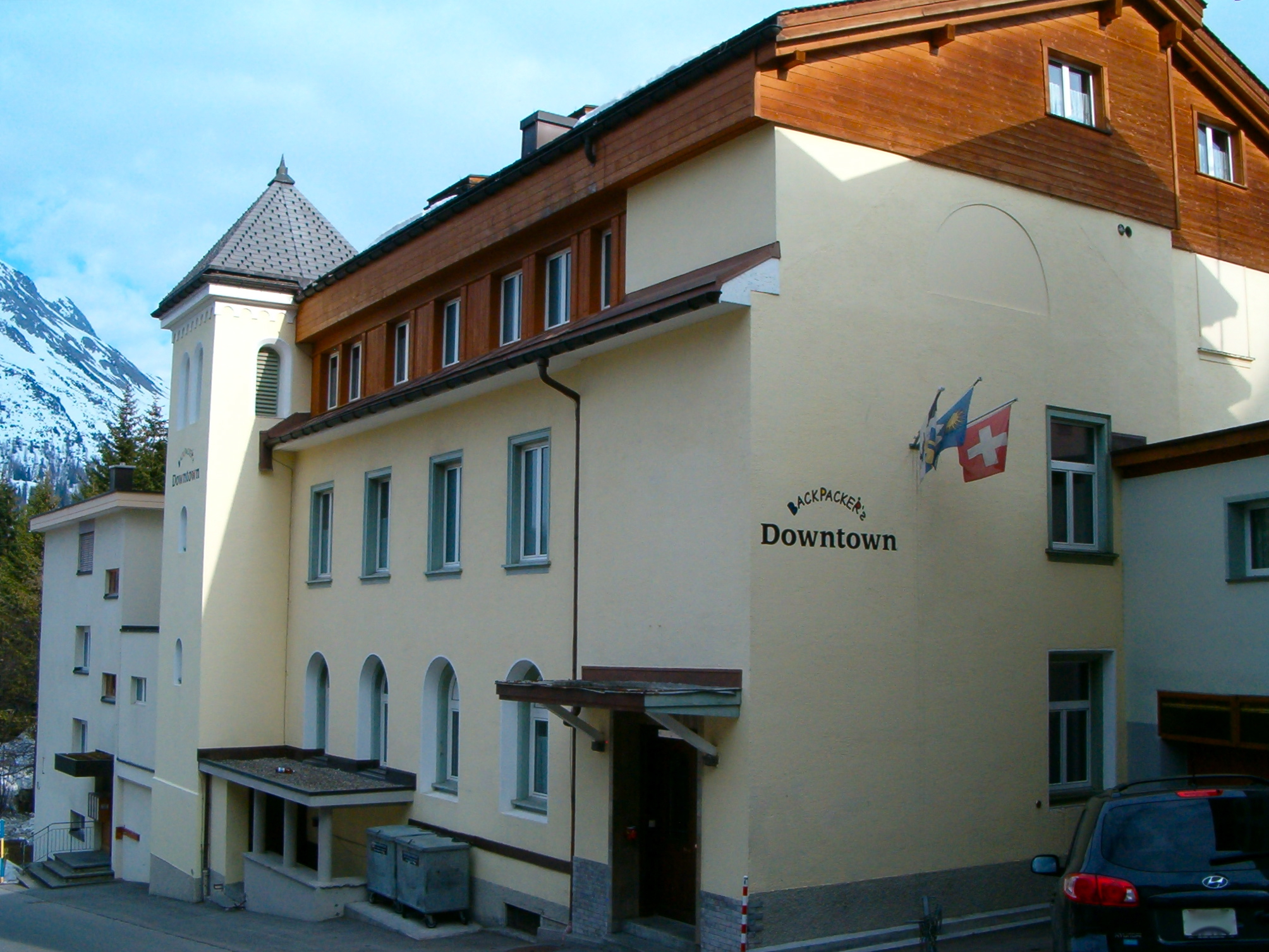 old catholic church Arosa/Switzerland, now a Backpacker's